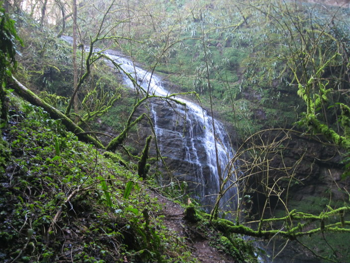 Picture of the Waterfall near gouffre de Réveillon in Lot department, France.